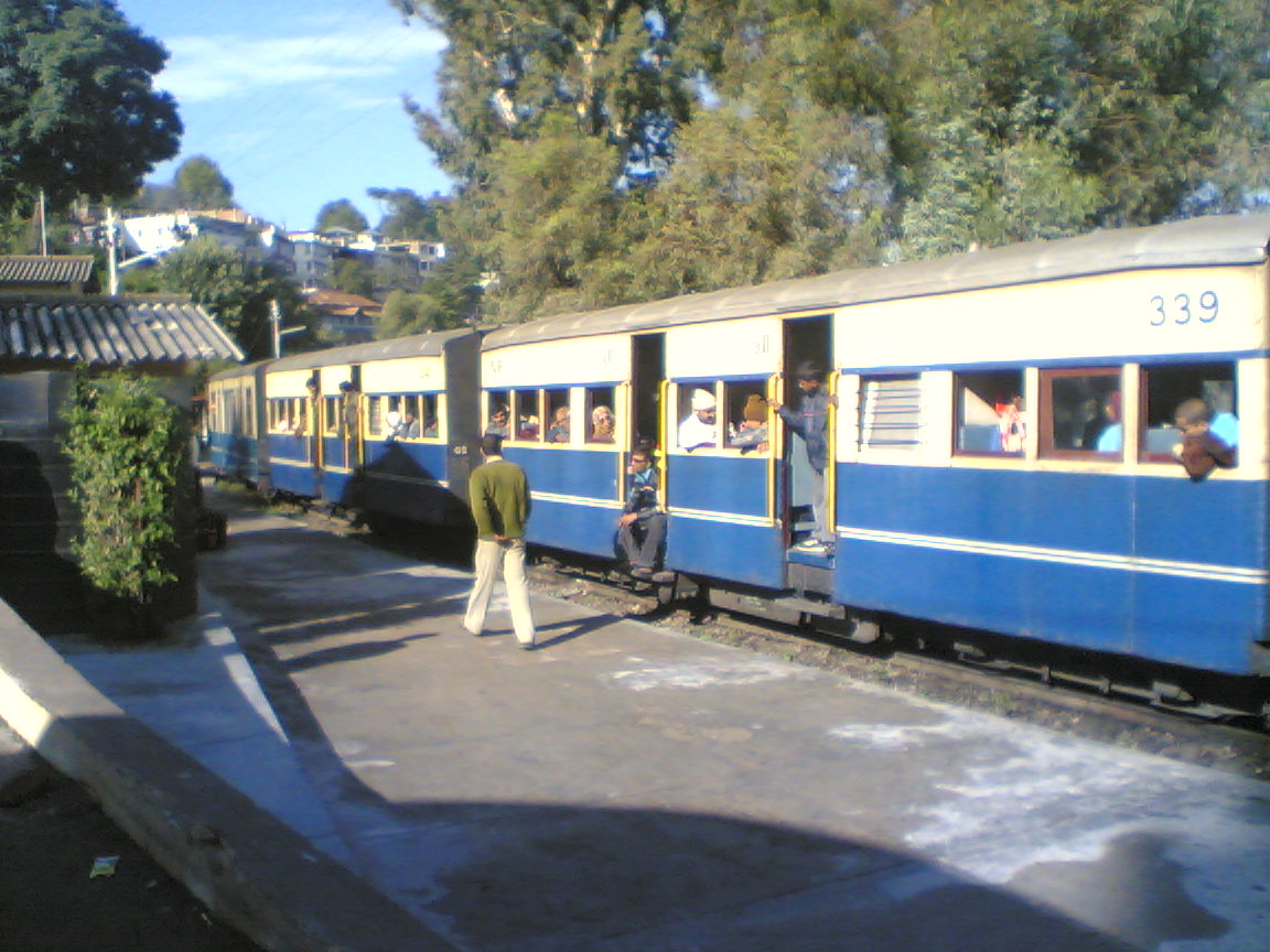 The Kalka-Shimla Train Halts At Solan Station